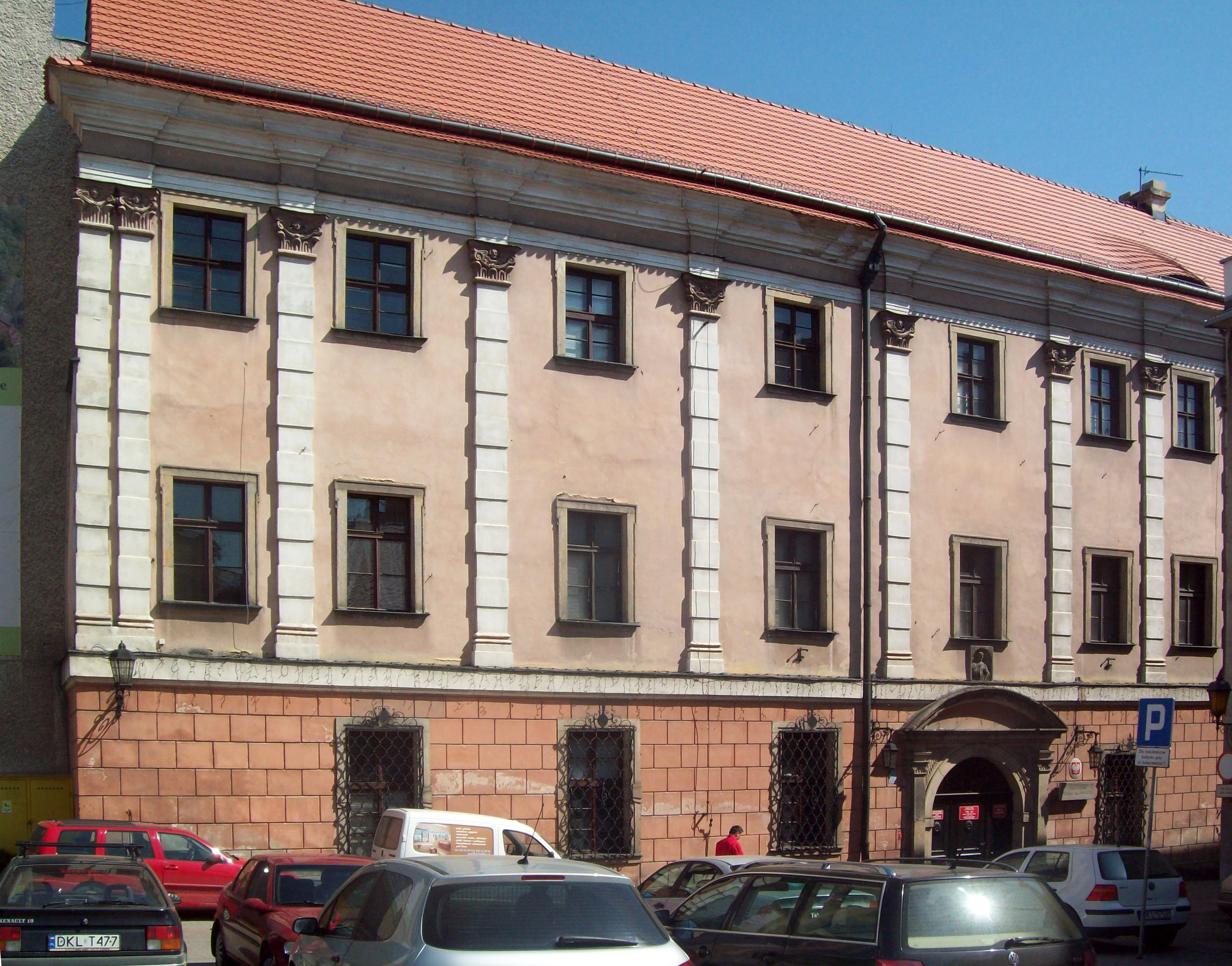 4 Łukasiewicza 4 Street in Kłodzko - former building of Jesuit Covictus, now Museum of Kłodzko Land